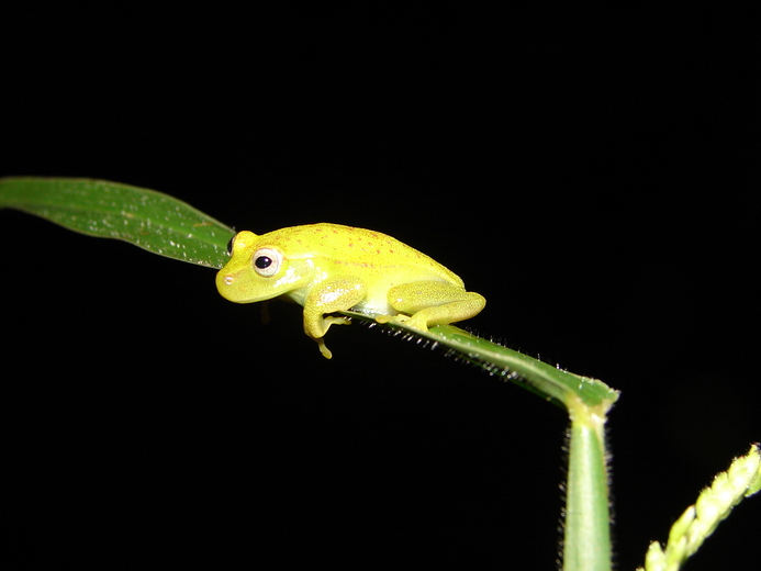 Hypsiboas punctatus